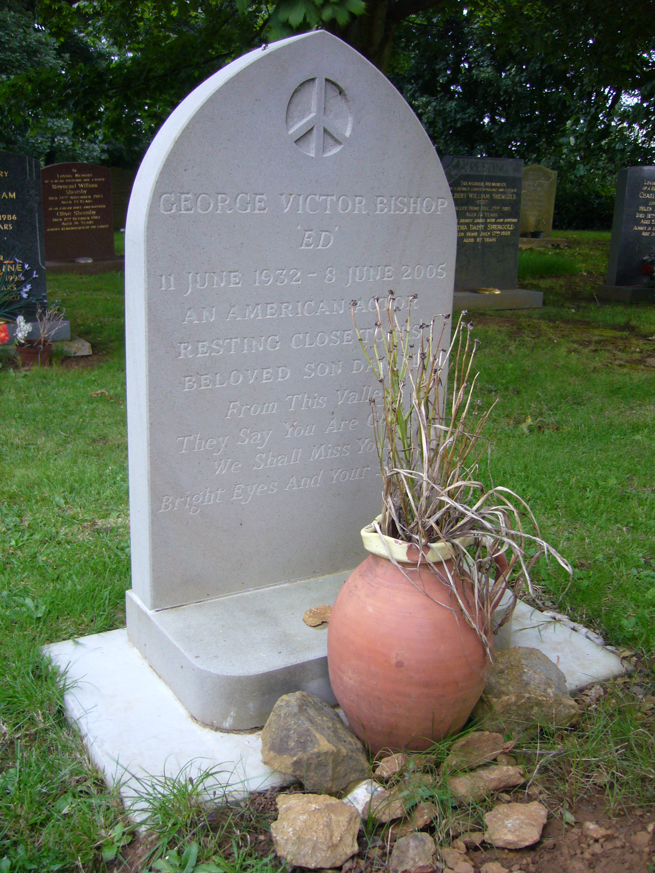 Grave of Ed Bishop in the churchyard of the Parish Church of Saint Lawrence in Napton, Warwickshire, UK. The partially obscured inscription reads: "AN AMERICAN ACTOR. RESTING CLOSE TO HIS BELOVED SON DANIEL. From This Valley They Say You Are Going. We Shall Miss Your Bright Eyes And Your Smile." Constructed of grey sandstone, the monument has a peace sign engraved on it. The grave of his son Daniel (16 May 1967 - 18 January 1988) is situated 2 metres to the right.